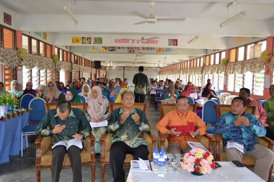 GAMBAR 6